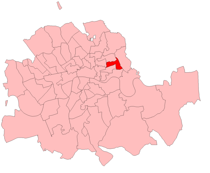 A map of Mile End constituency within the Metropolitan Board of Works area, as it existed from 1885 to 1918.